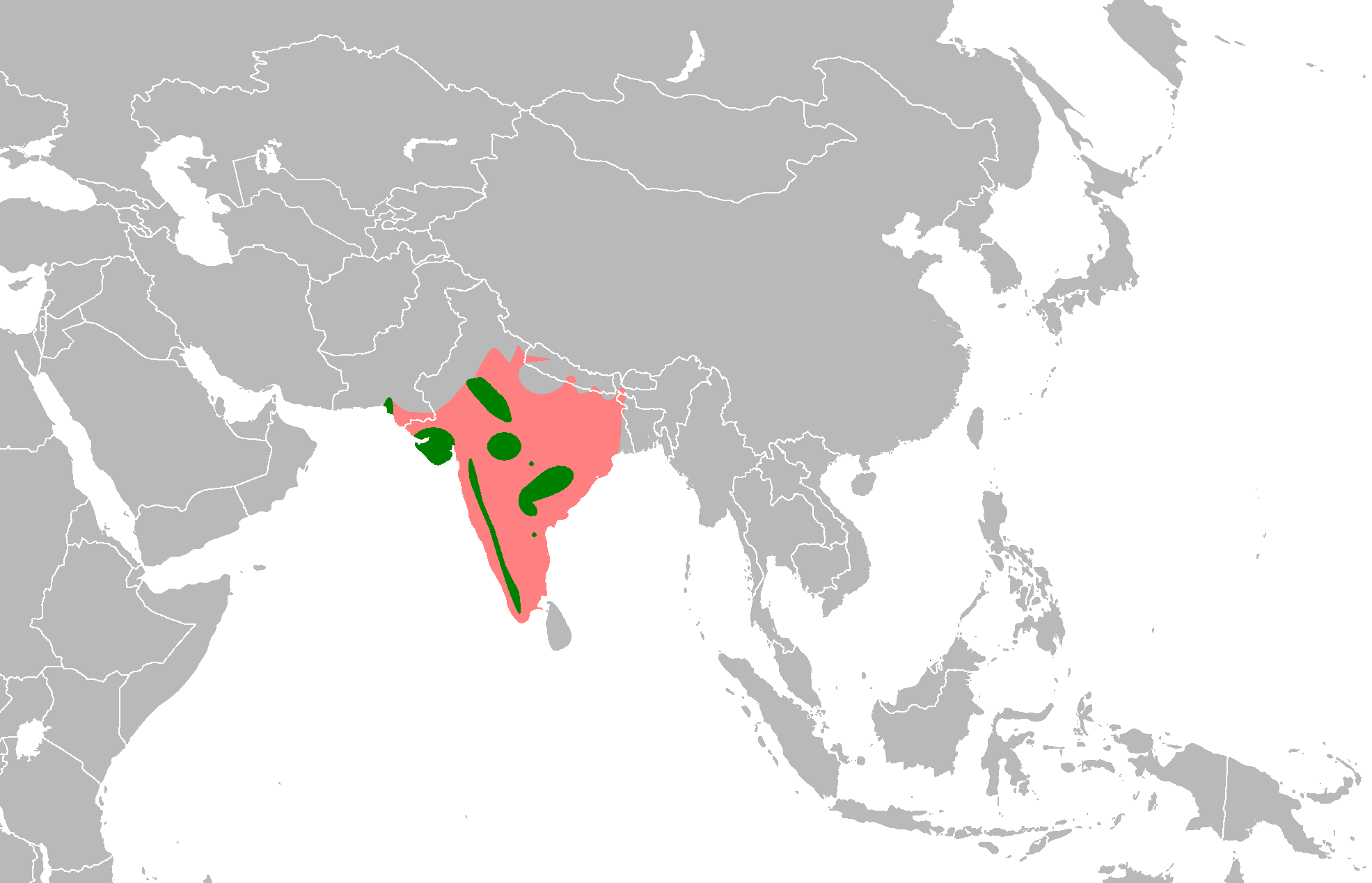 Distribution of the Lesser Florican (Sypheotides indicus). Green: Breeding distribution. Red: Former distribution. Source: IUCN